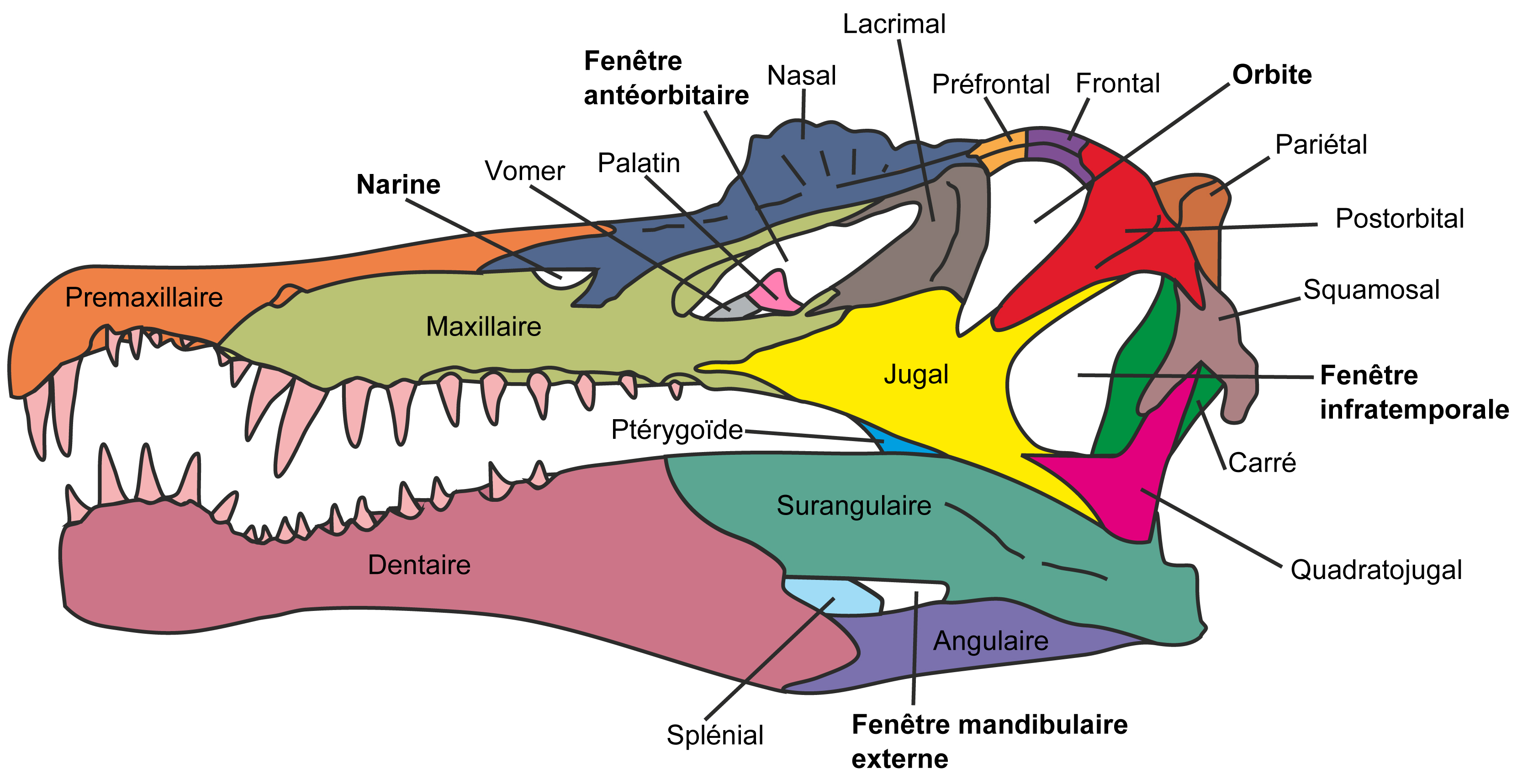 Skull of Spinosaurus aegyptiacus representing the different bones.